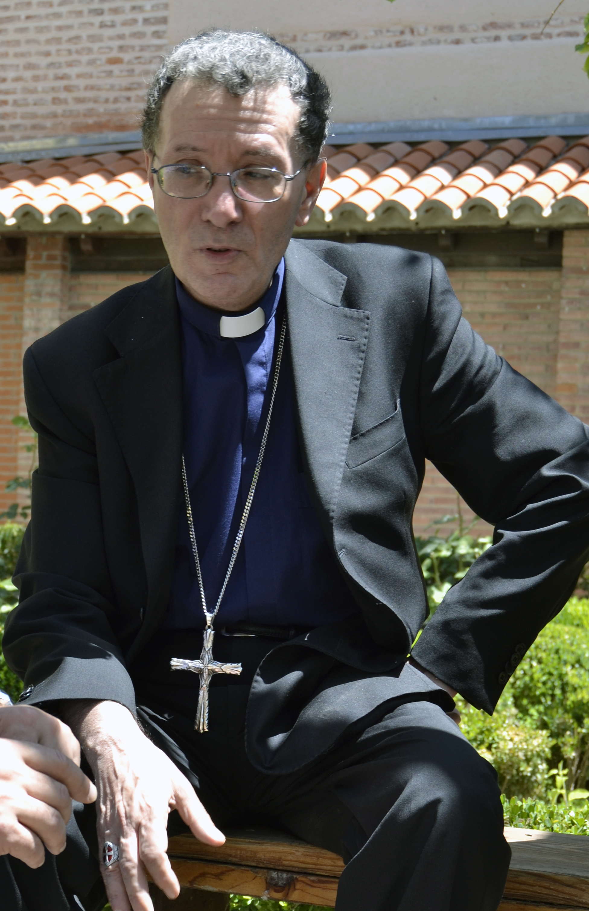 Pietro Santoro, Italian Roman Catholic bishop.